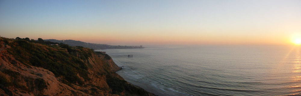 Panoramic view of La Jolla and Scripps Pier, from the cliffs of the La Jolla Shores district, San Diego, Southern California.